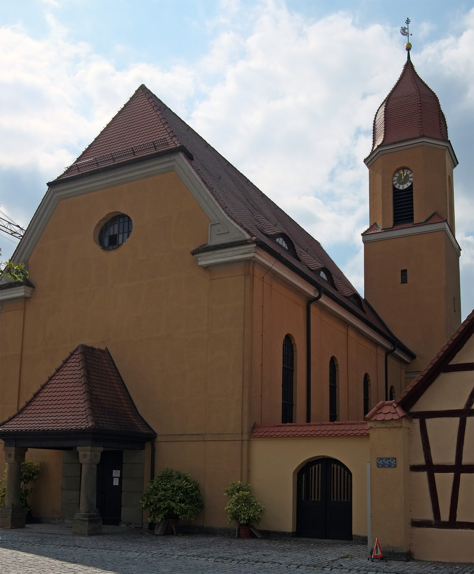 This is a photograph of an architectural monument.